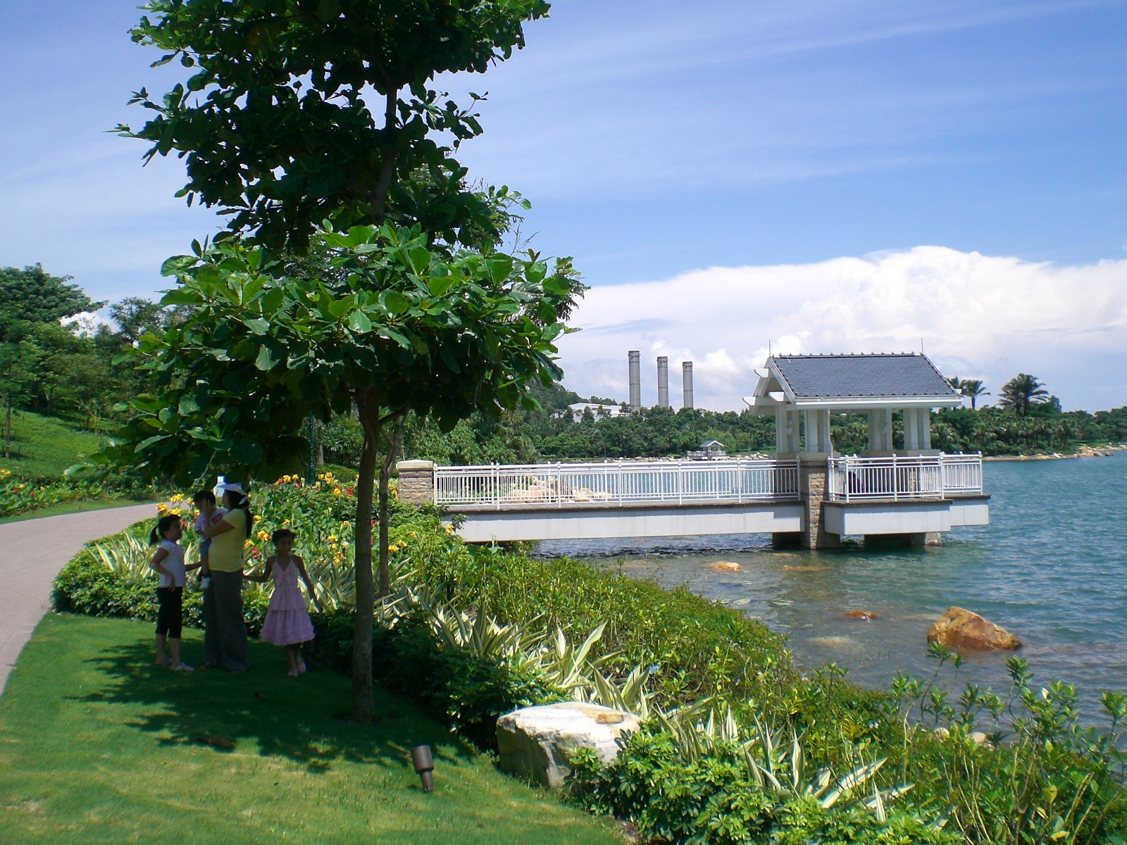 大嶼山迪欣湖活動中心 June 16th, 2007 夏天 湖心涼亭 遠觀背景是 竹篙灣發電廠 三支zh:煙囪